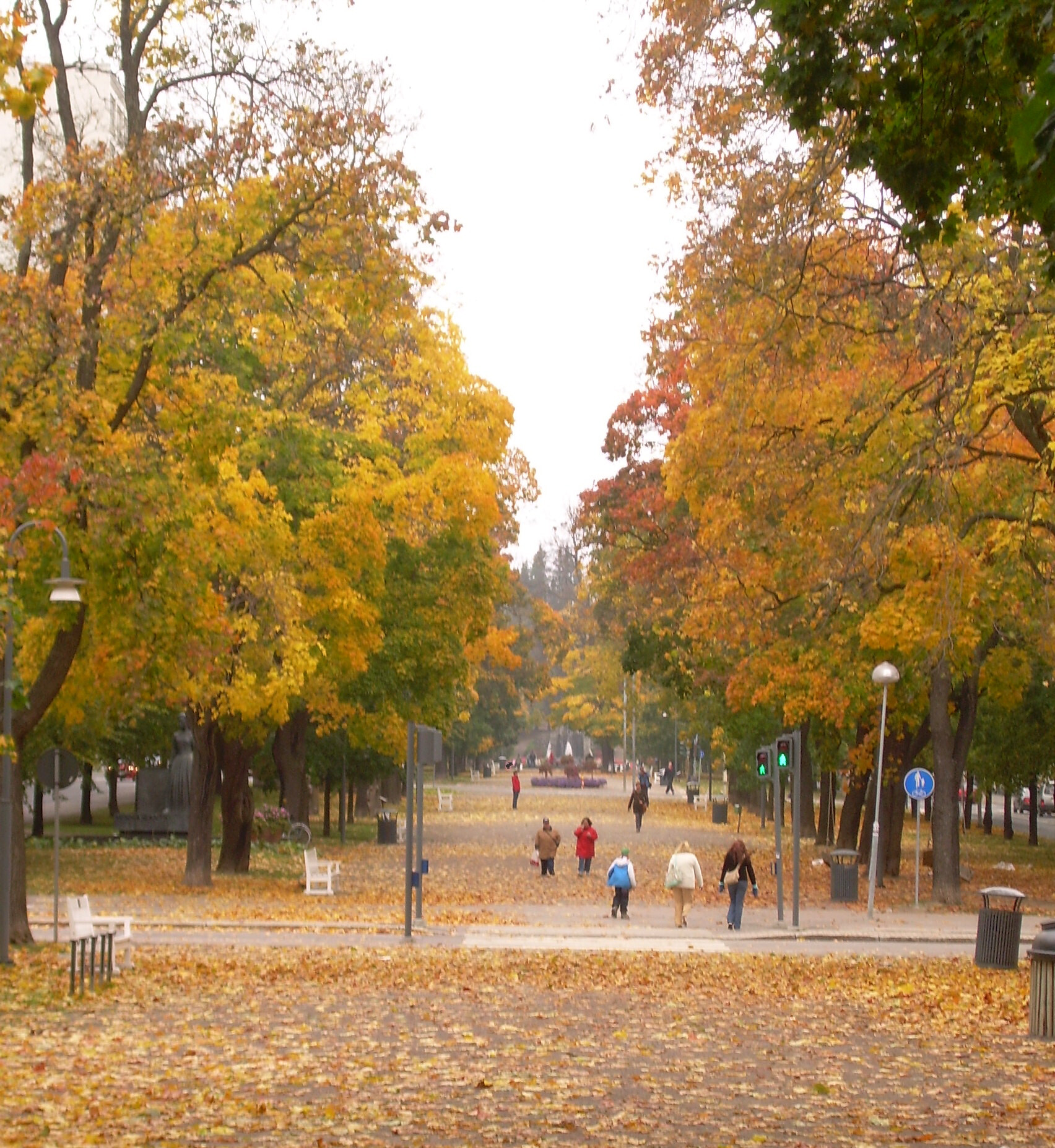 Hämeenpuisto Park in Tampere, Finland.